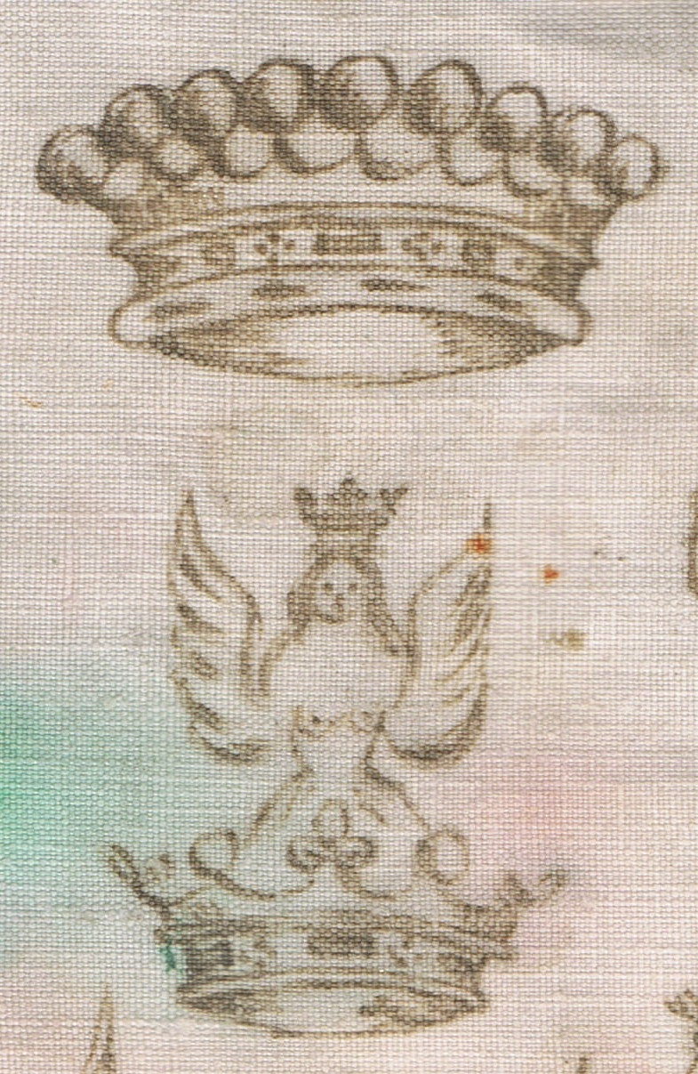 scan of part of a cloth, showing Bellonna:de Salis family crest (R. de Salis, 2007).Rodolph (talk) 15:27, 21 July 2008 (UTC) WHY is this image disputed?Rodolph (talk) 16:22, 23 July 2008 (UTC) It is at least 150 years old. I scanned it myself.